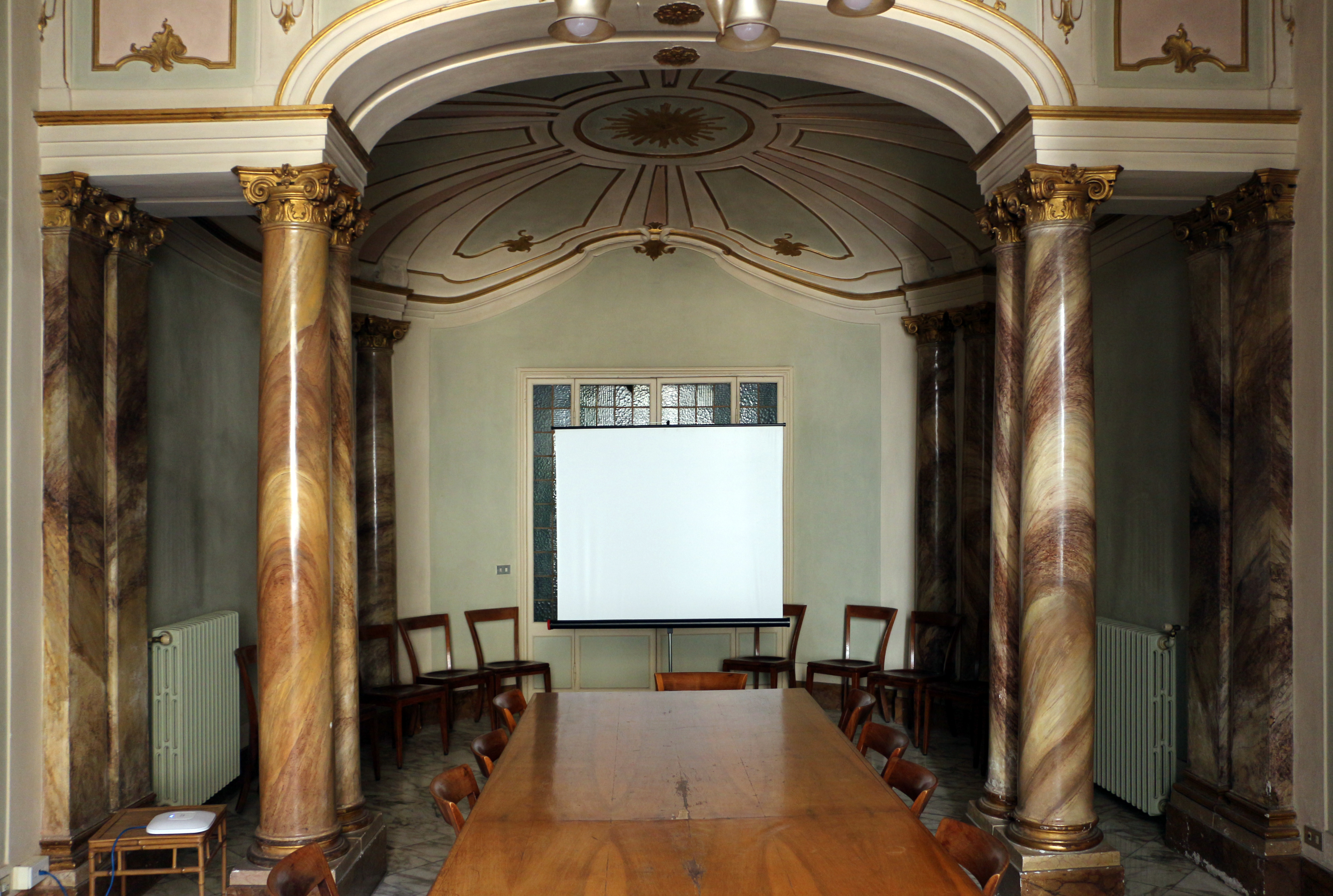 Palazzo Fenzi - Interior